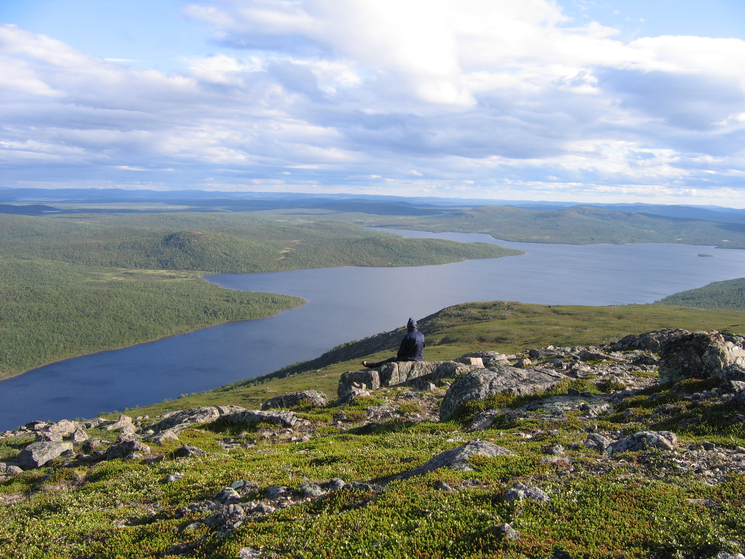 Lake Peltojärvi seen from top of Peltoaivi in Inari, Lapland, Finland.